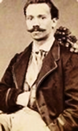 Giuseppe Sante Carrara Garibaldino photo portrait image retouched